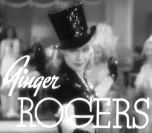 Screenshot of Ginger Rogers from the trailer for the film Stage Door.